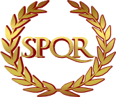 Logo for project banner for article talk page